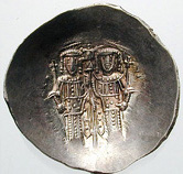 Alexius III EL aspron trachy 592316.jpg